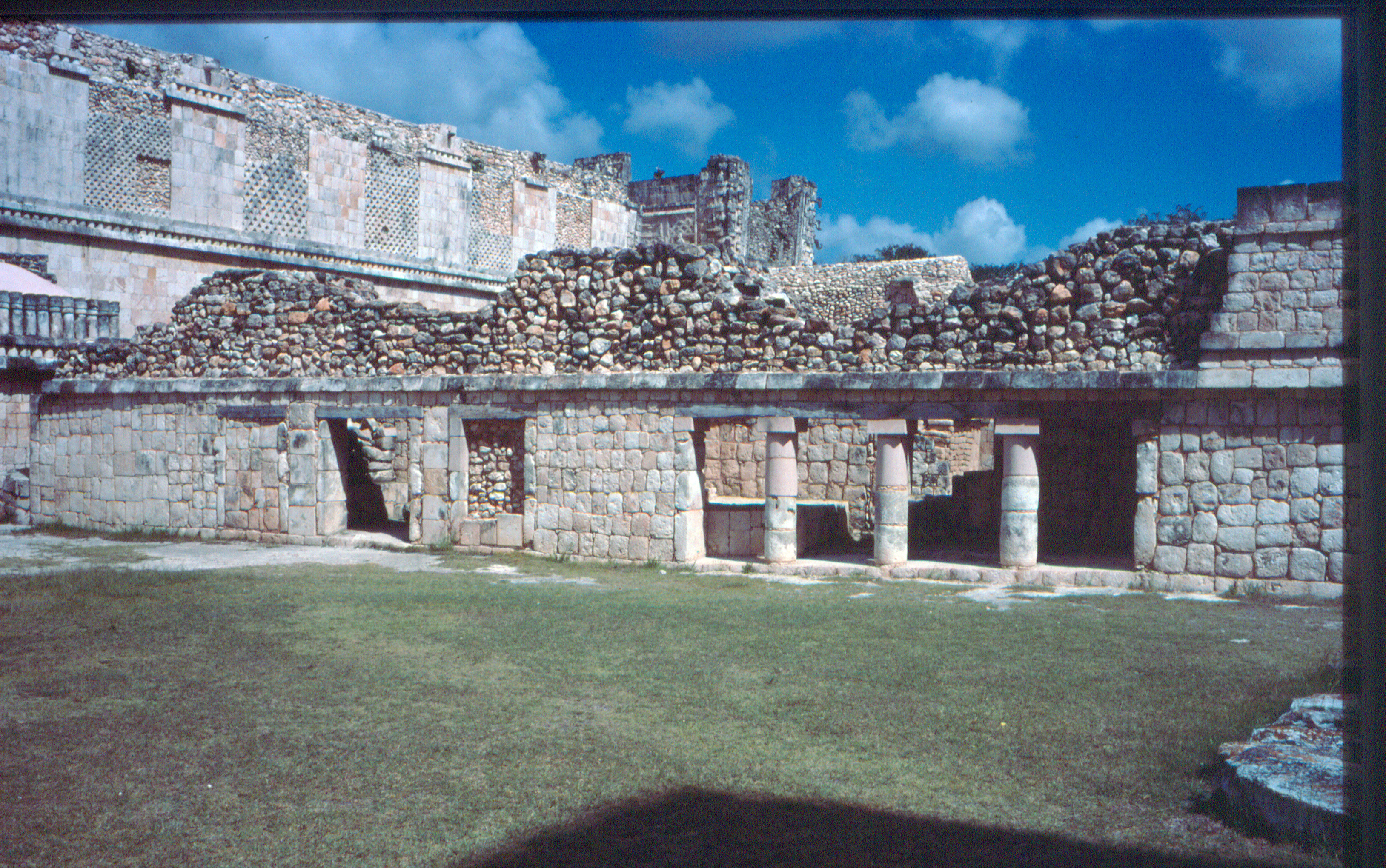 Uxmal,Yucatan, Mexico: Birds plaza, north building